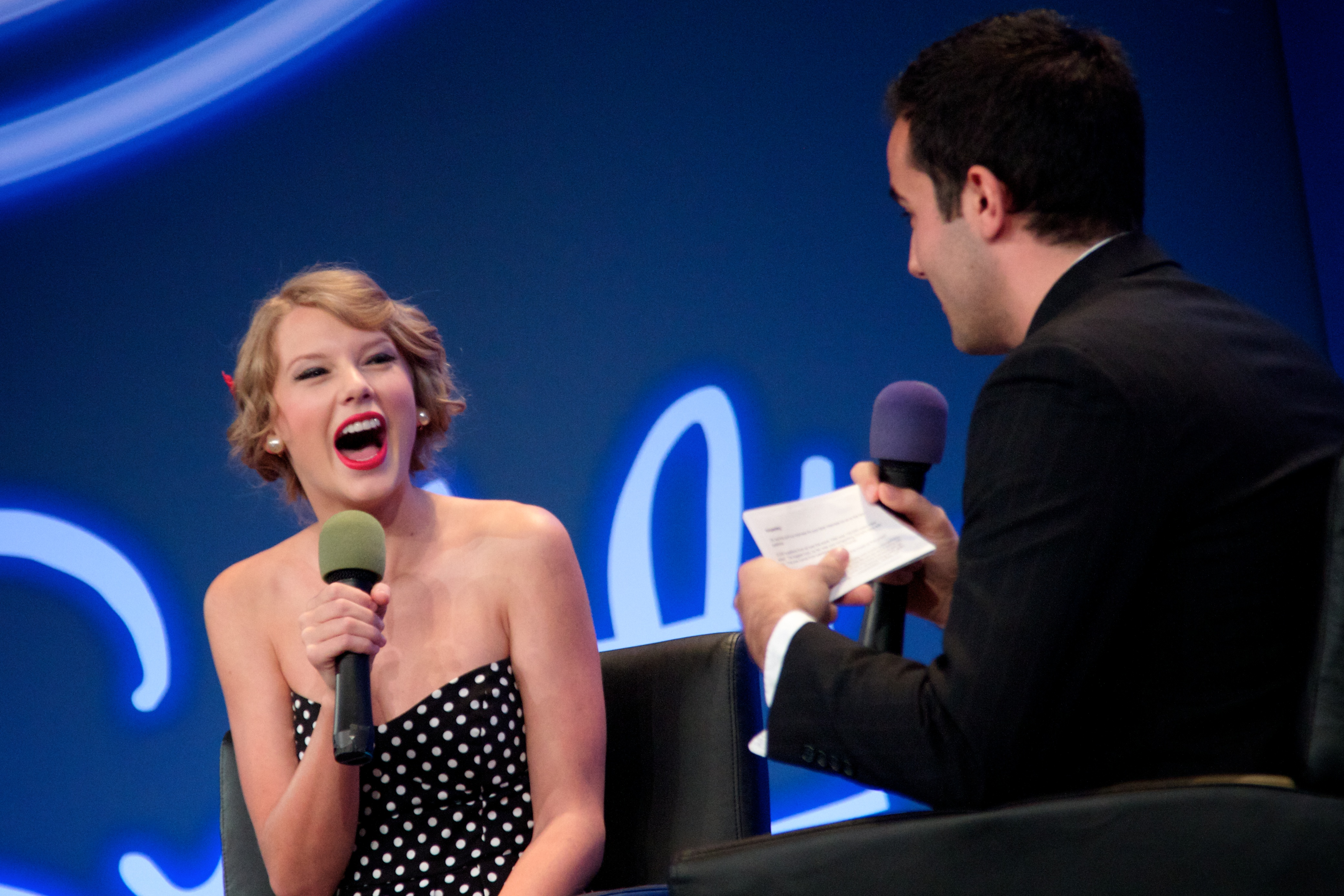 YouTube Presents Taylor Swift.